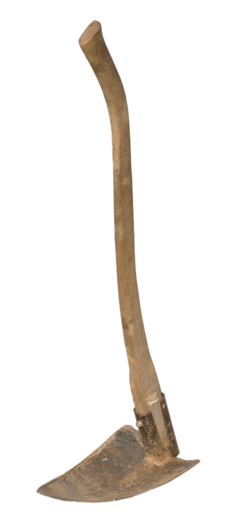 A pointed hoe suitable for digging in gravel or stony ground